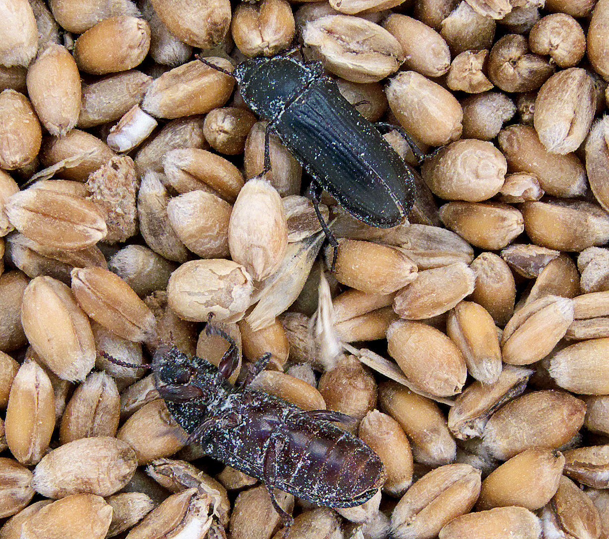 Tenebrio molitor on wheat